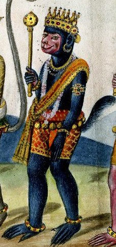 "Rāmacandra standing in a rocky landscape with Laksmana and the bear and monkey chiefs of his army" "The Chief's of Rama-Chandra's army. 1. Rama Chandra. 2. Lacshman. 3. King Sugriva. 4. Hoonoman. 5. Jambuvan. 6. Angada. 7. Arunda. 8. Nila. 9. Samrambha. 10. Nala. 11. Vanara. 12. Durvinda. 13. Rambha."